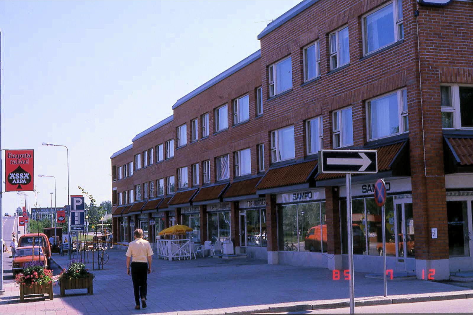 A street in Pieksämäki, Finland in 1985